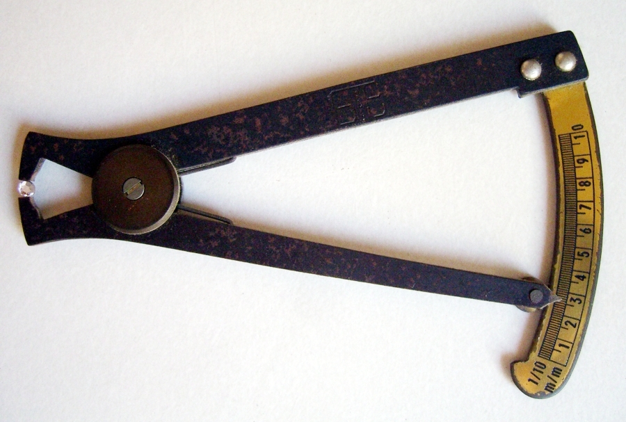 Sized 0-10 mm caliper with bow